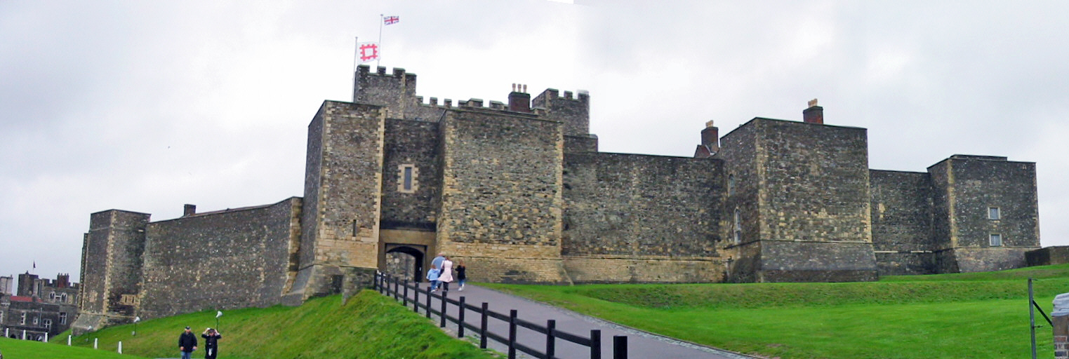 The inner bailey of Dover Castle, merged from three photographs.